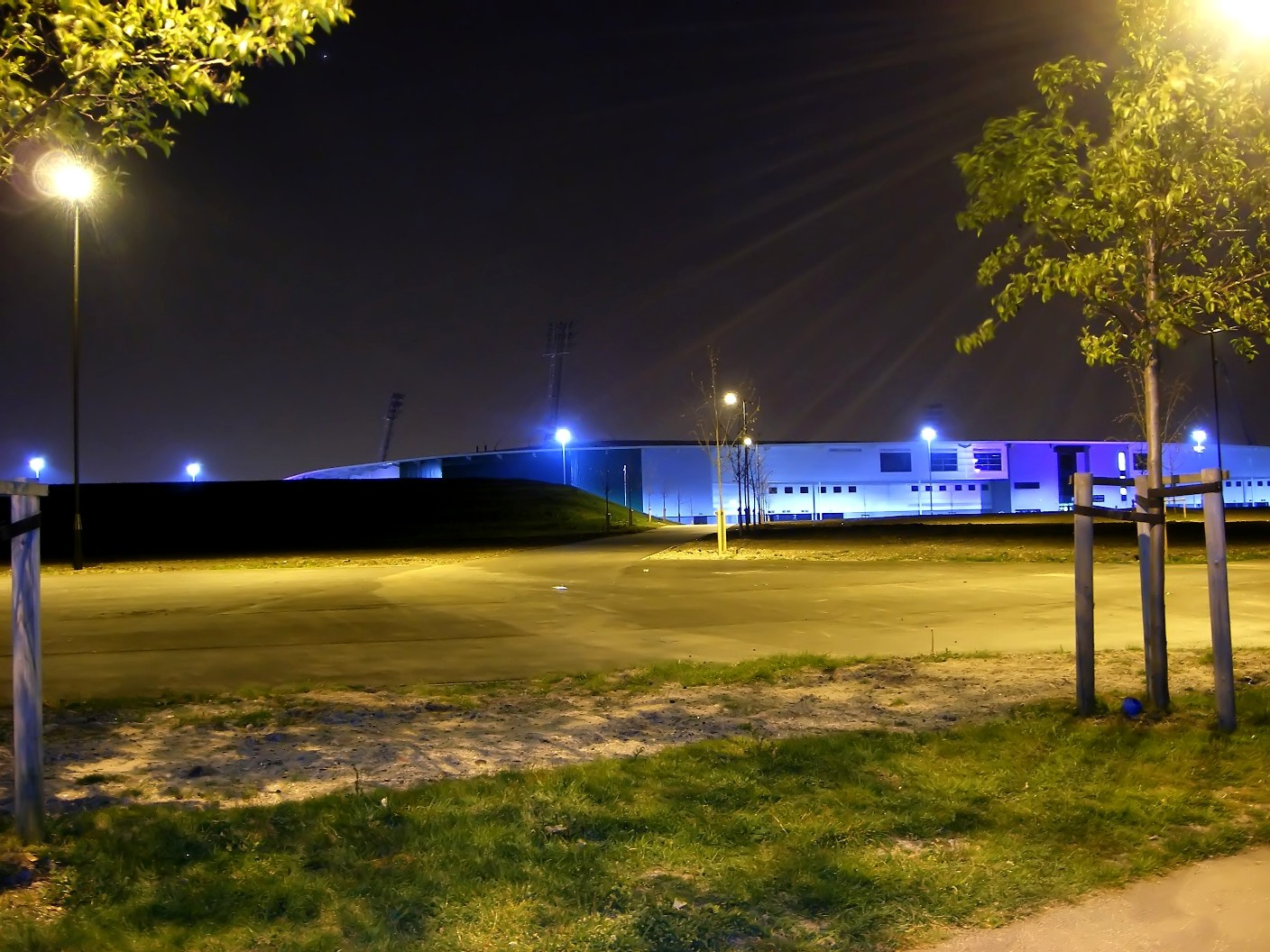 Keepmoat Stadium, Doncaster, South Yorkshire, seen from Lakeside at night